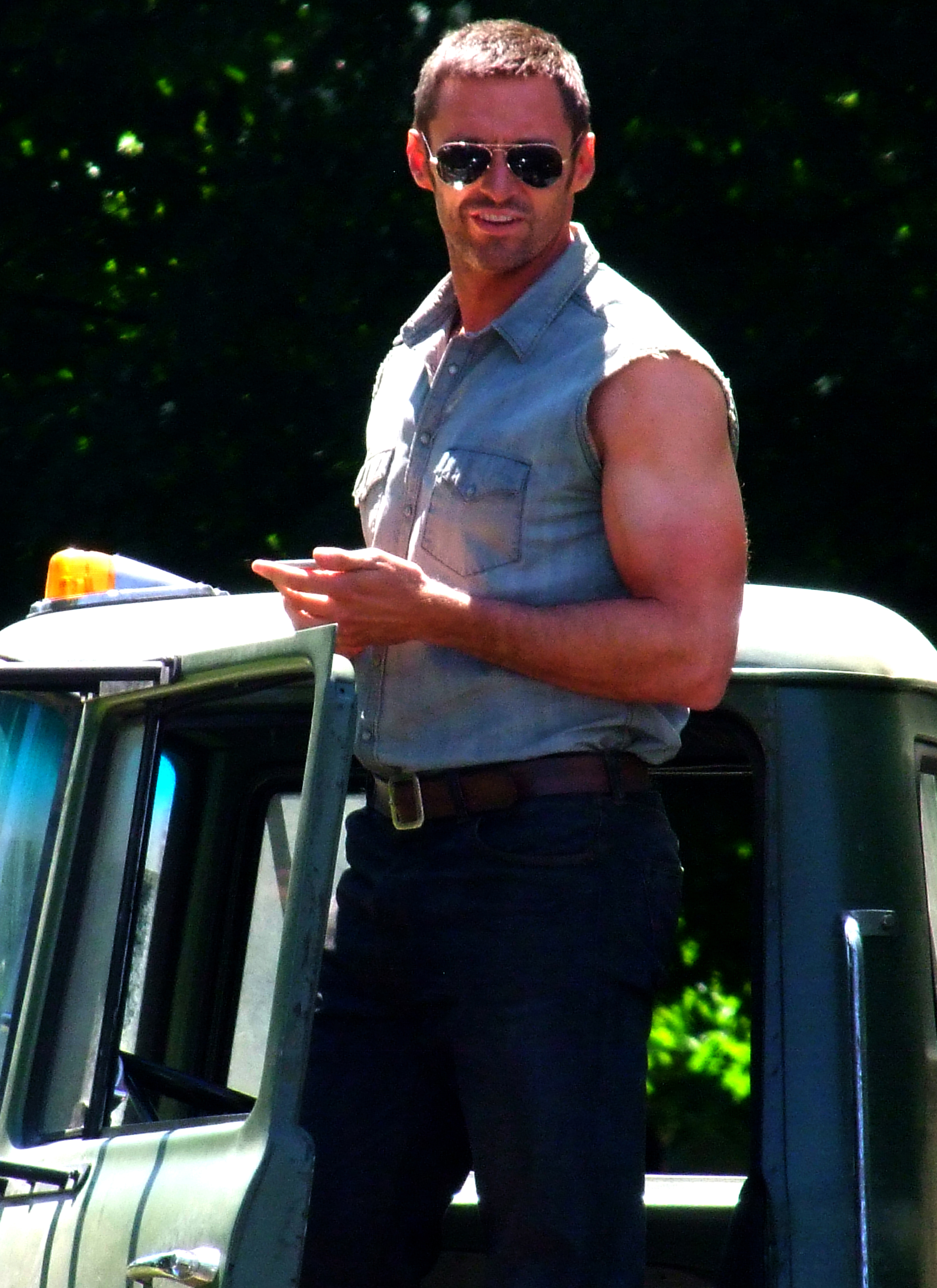 Hugh Jackman on the set of Real Steel in July 2010.